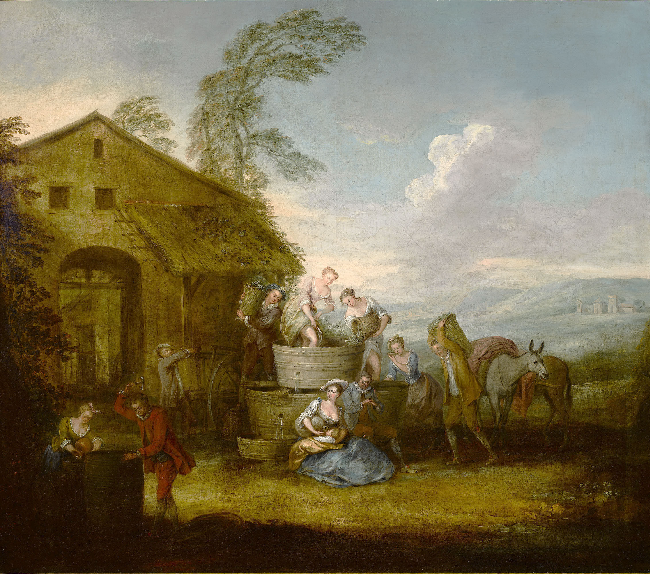 The Grape Harvest by Jean-Baptiste Pater. Oil on canvas. Circa 1720